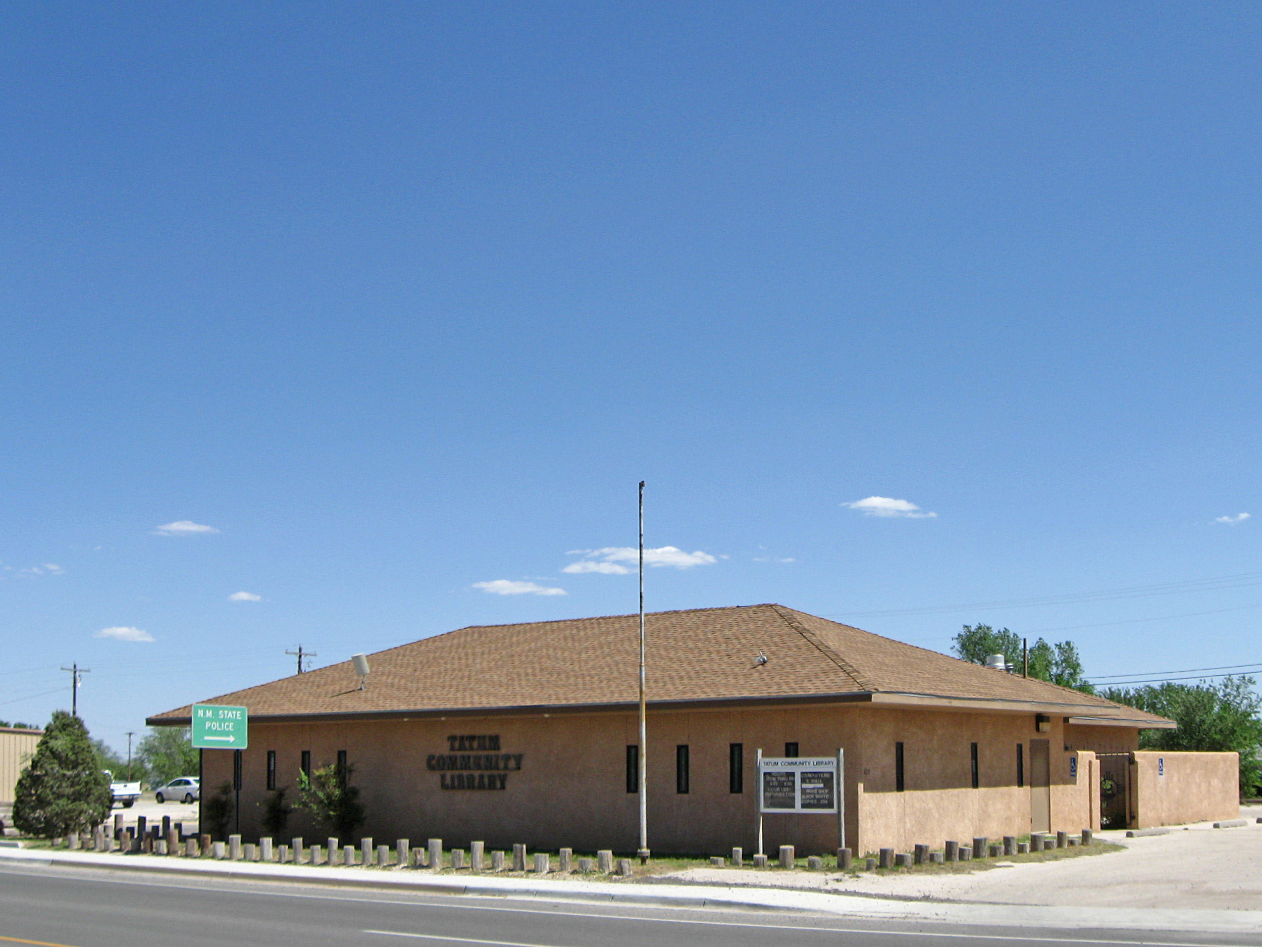 Tatum (New Mexico) Community Library, located at 323 E. Broadway in Tatum, New Mexico.